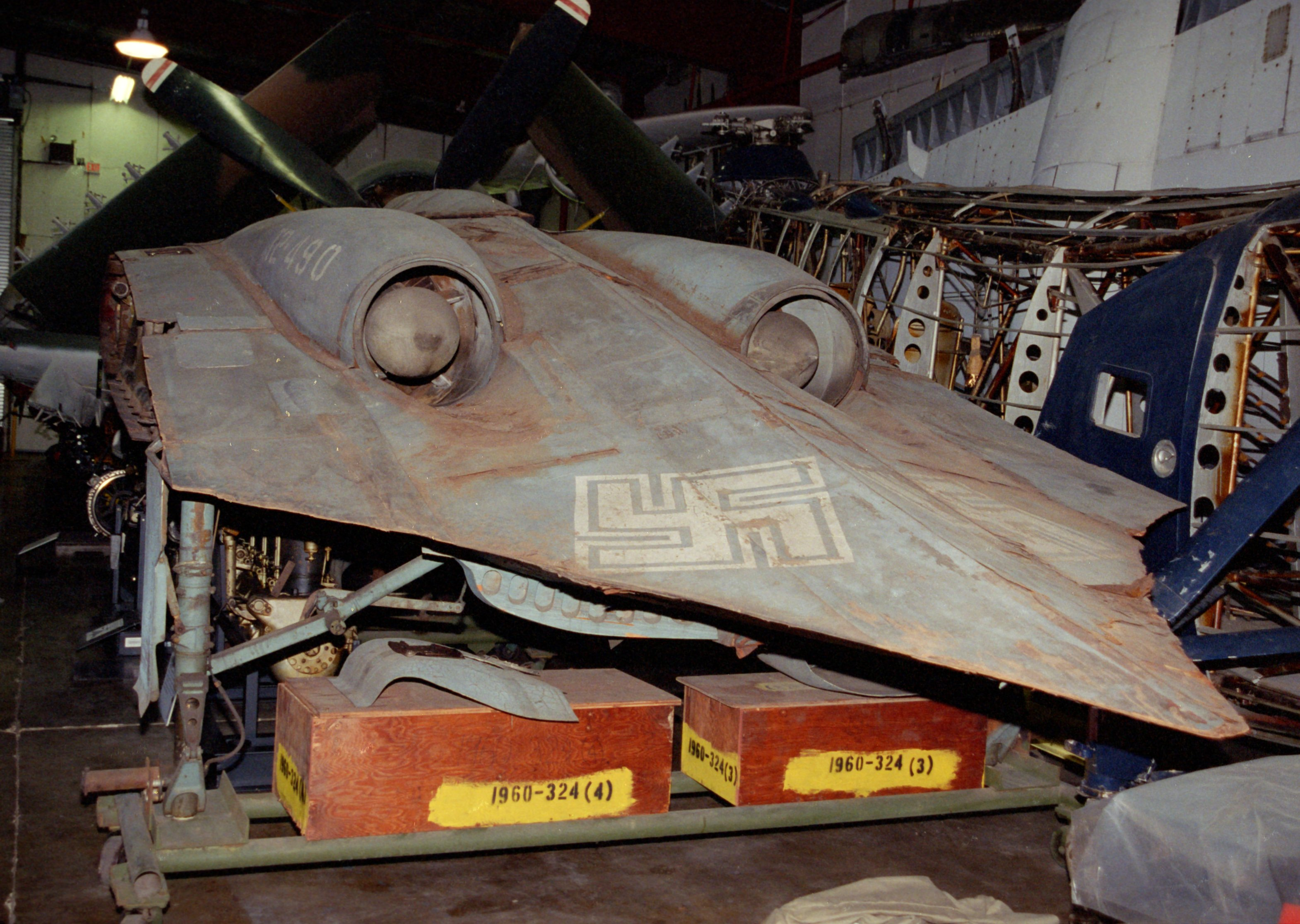 Horten Ho 229 (Horten H. IX) at the Smithsonian Institution's Garber Restoration Facility. Photographed by Michael Katzmann, 2000